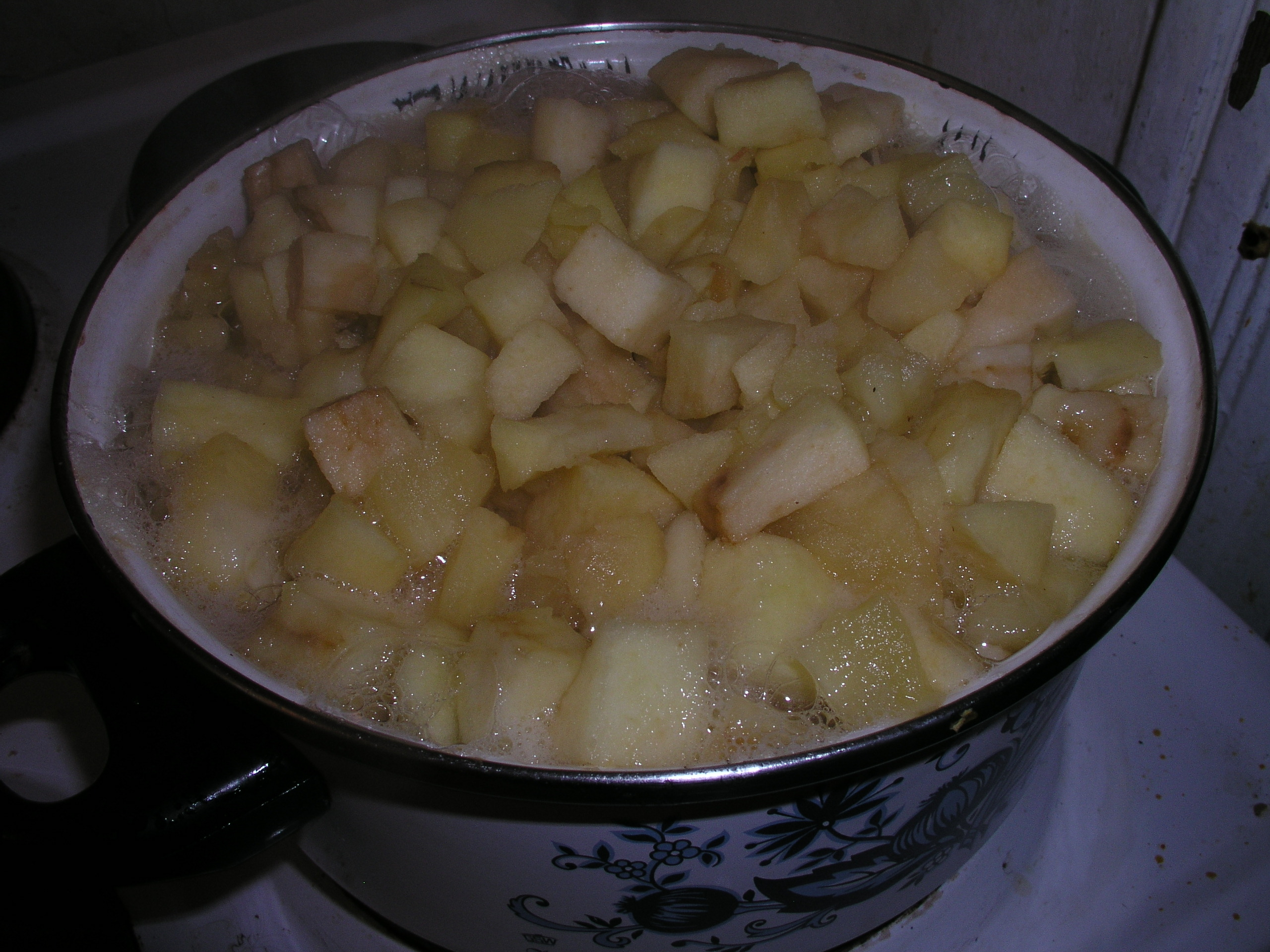 Simmering of apple cubes (becomes apple compot, ingredient in traditional danish apple pie)